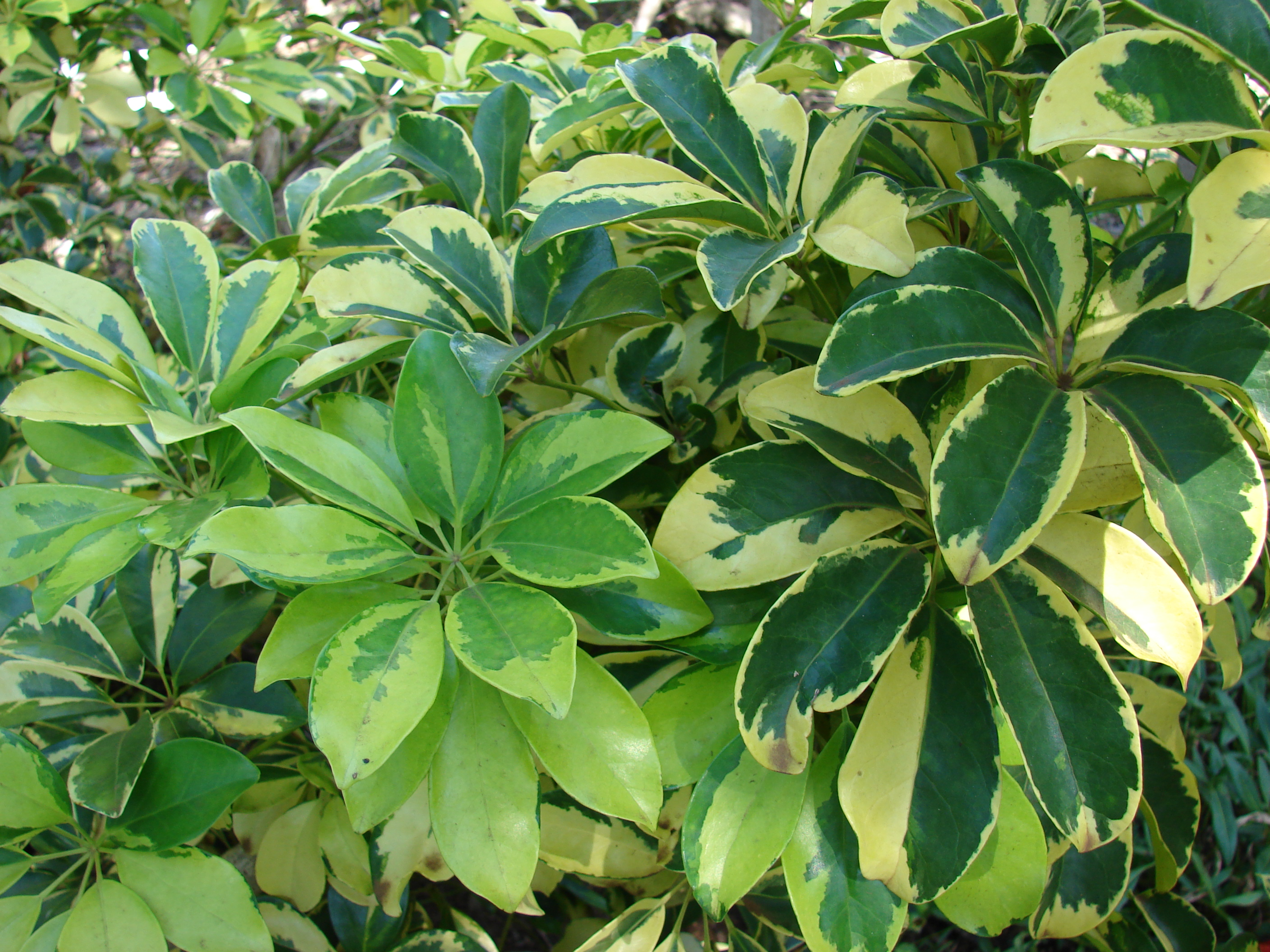 Schefflera arboricola (variegated leaves). Location: Maui, Enchanting Floral Gardens of Kula